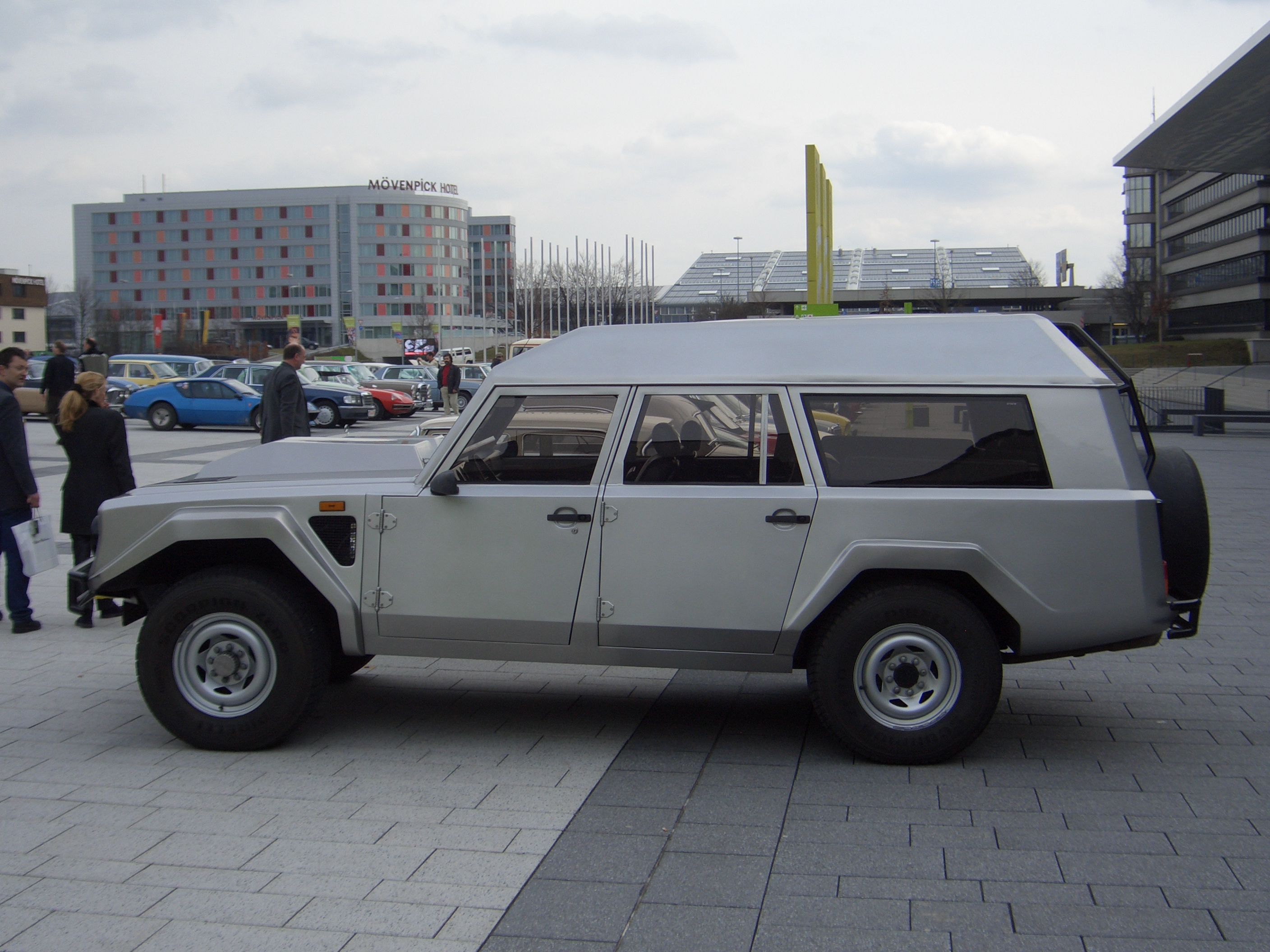 Lamborghini LM 002, estate conversion for the Sultan of Brunei, 1989, seen at Retro Classics fair in Stuttgart, Germany